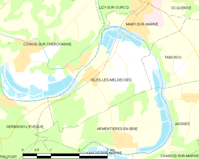 Map of French municipality Isles-les-Meldeuses